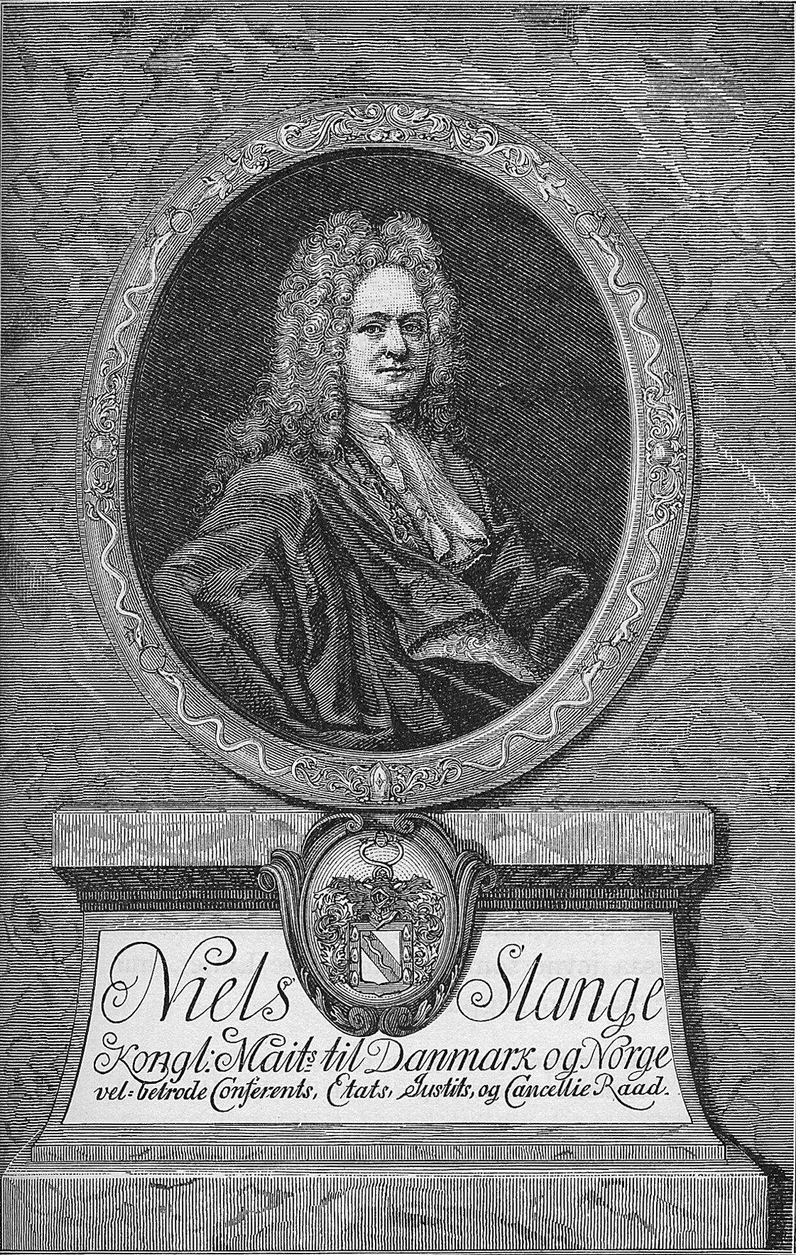 Niels Slange